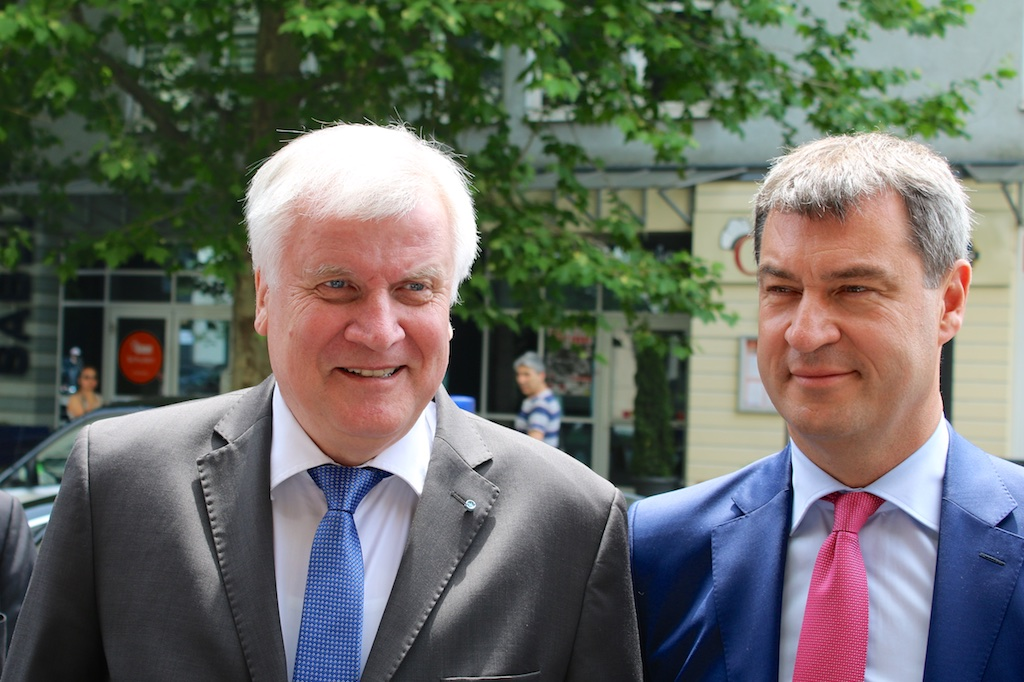 Bavaria's Prime Minister Horst Seehofer and Minister of Finance Dr. Markus Söder